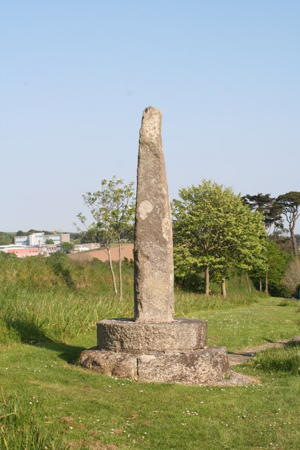 The Tristan Stone by A3082 Fowey See separate submission for details of the history of this stone which dates from 550AD